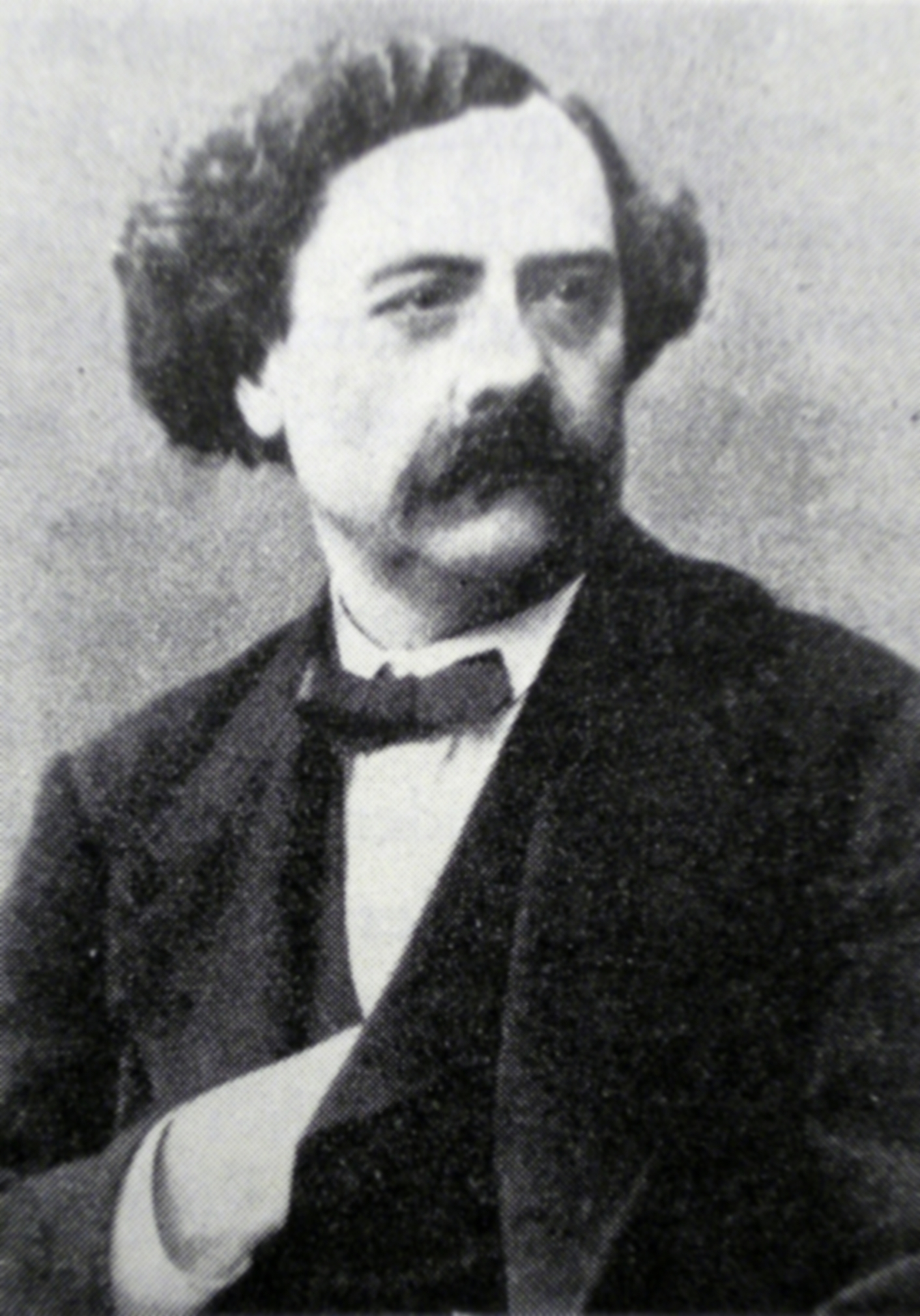 Portrait of Curry Treffenberg (1825-1897)